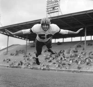 B.C. Lions football club, portraits, individual players, Leo Sweeny VPL Accession Number: 84780P Date: July 10, 1954 Photographer / Studio: Jones, Art Content: Part of a series 84780+ (63 photos) Topic: Sports Sports teams Football Football players Stadiums Costume Sports uniforms Location: British Columbia - Vancouver Copyright Restrictions: Public Domain